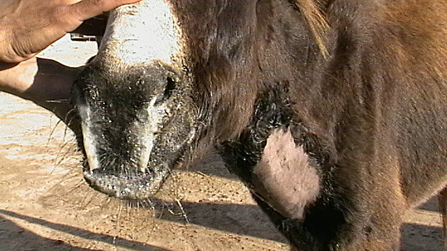 Discharge from nostrils in a donkey with choke due to eating dry sugar beet pulps 3 days ago; note enlarged shaving of neck prior to surgery